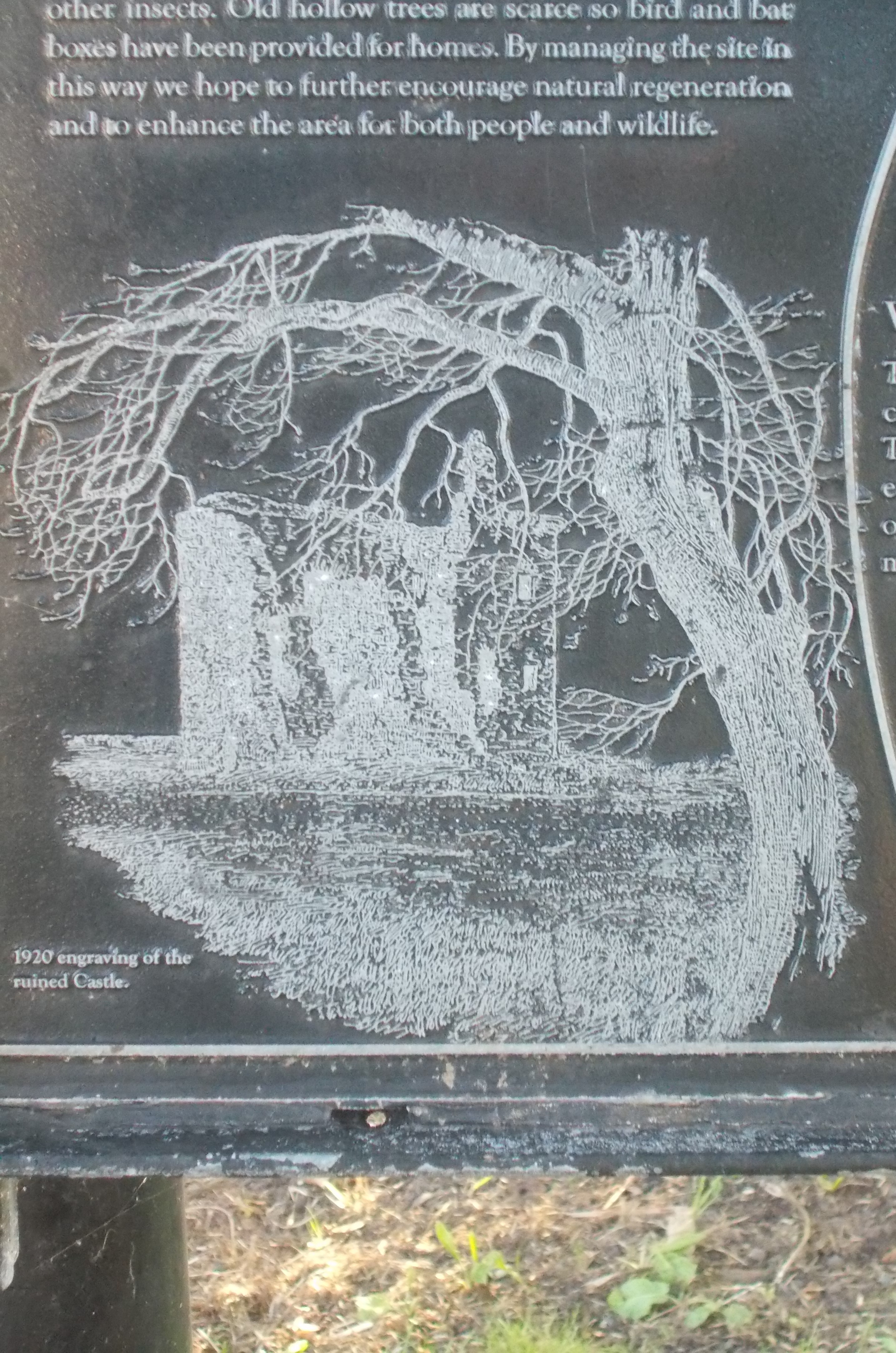 Photograph of the plaque at the site of the castle ruins.